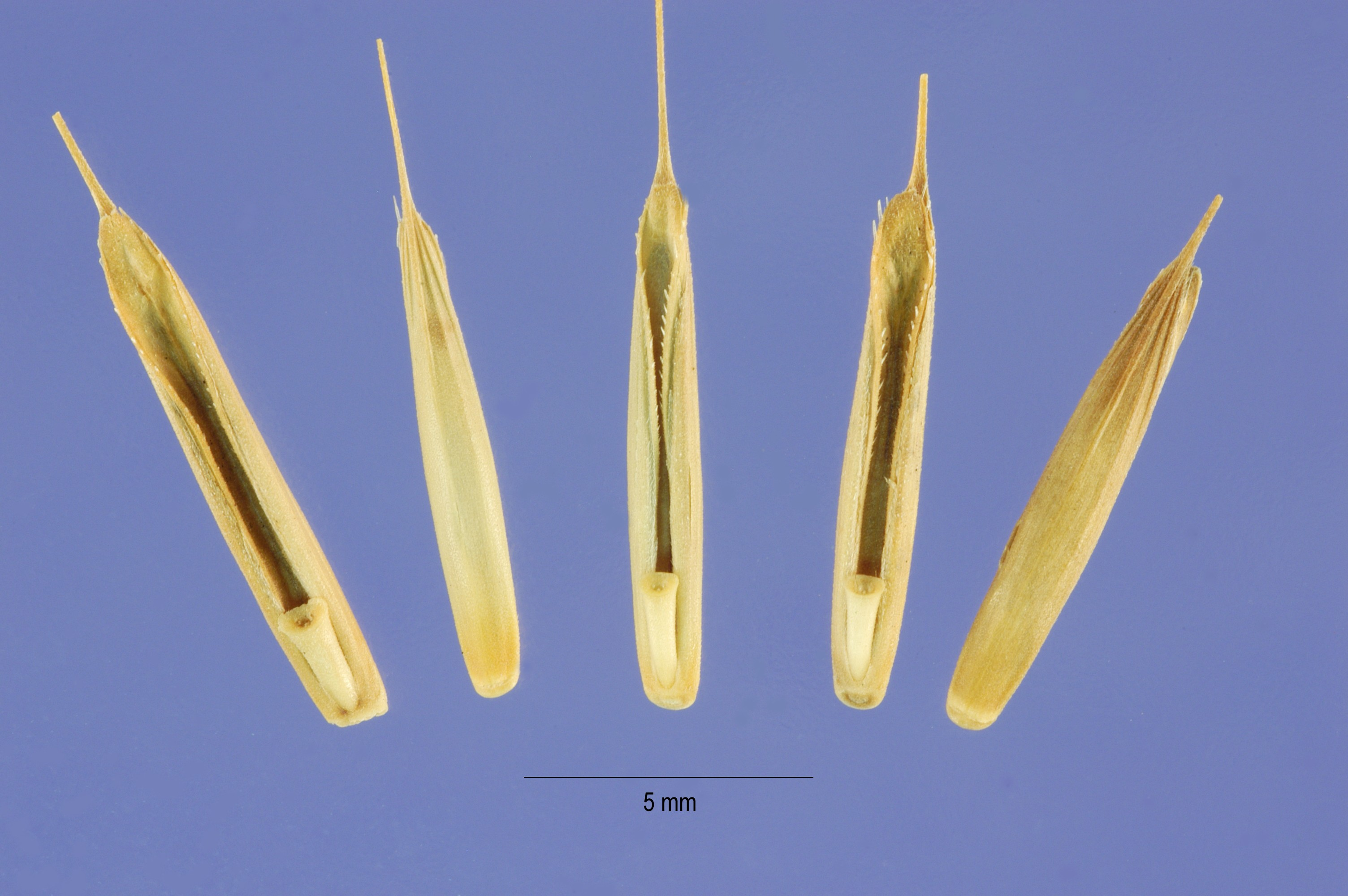 Brachypodium distachyon from Steve Hurst. Provided by ARS Systematic Botany and Mycology Laboratory. Israel.